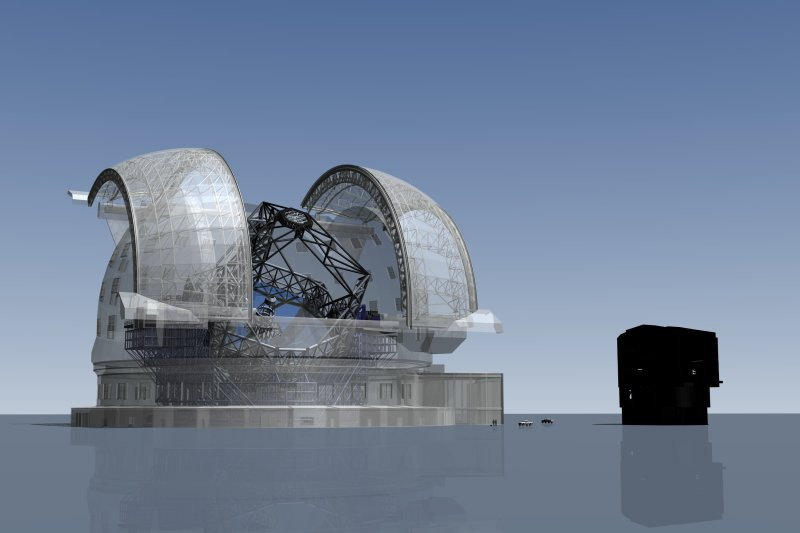 The image compares the European Extremely Large Telescope with one of the four existing "unit telescopes" of the Very Large Telsecope at La Silla (Chile). As of March 2009, there was no siting decision on the E-ELT, though.